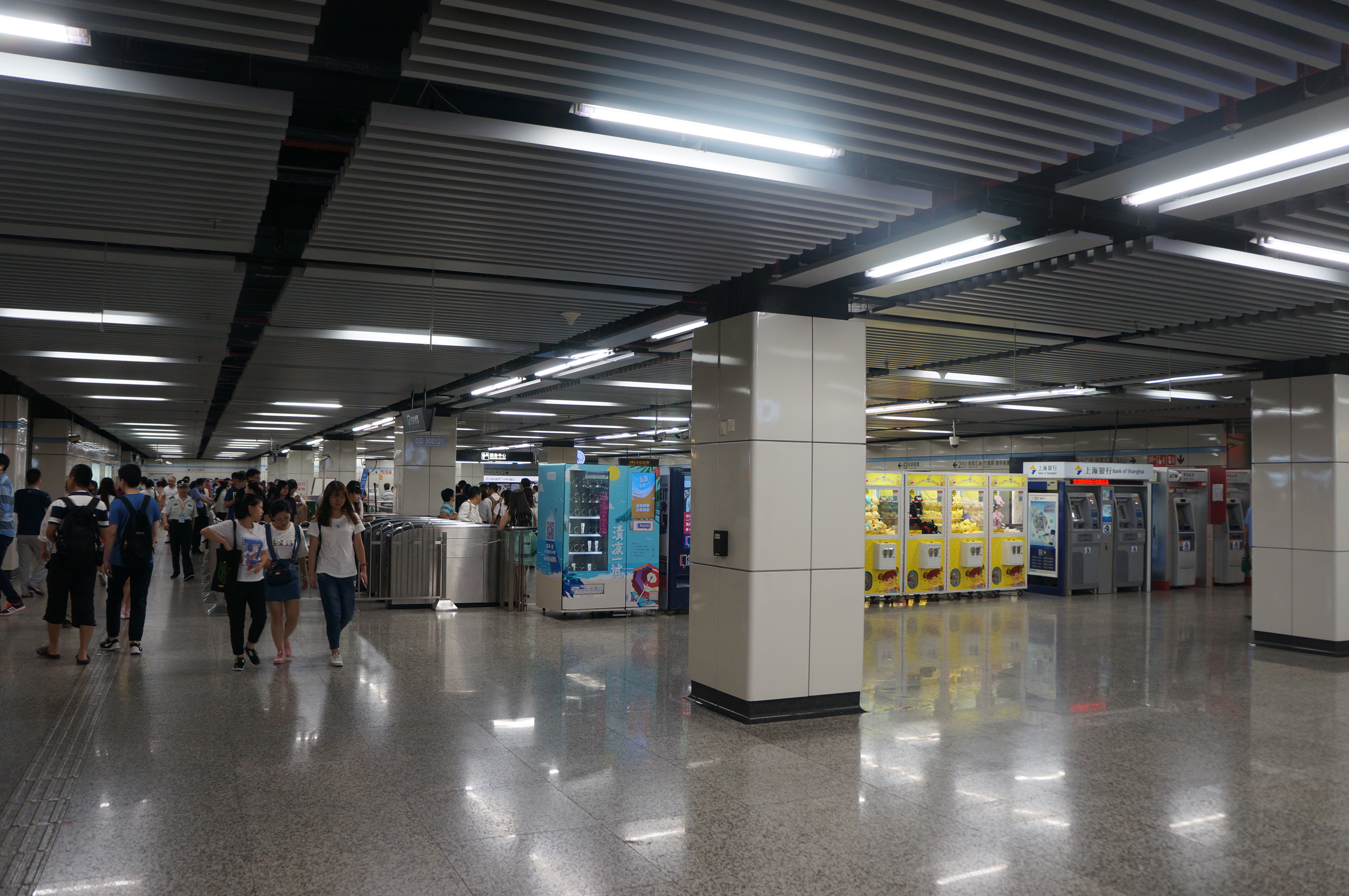 201609 Concourse for L9 at Dapuqiao Station